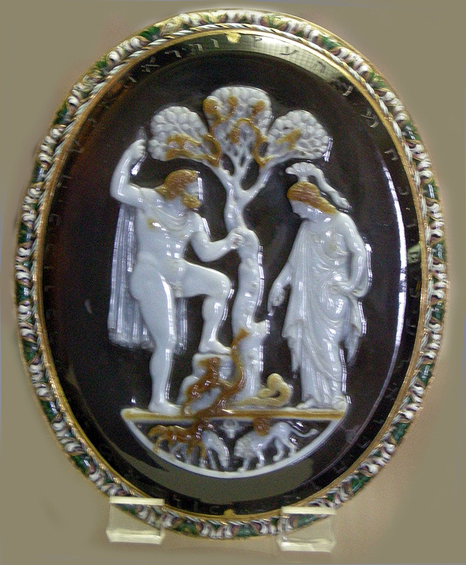 Illustration of Greek myth of Poseidon and Athena contending to be the founder of Athens